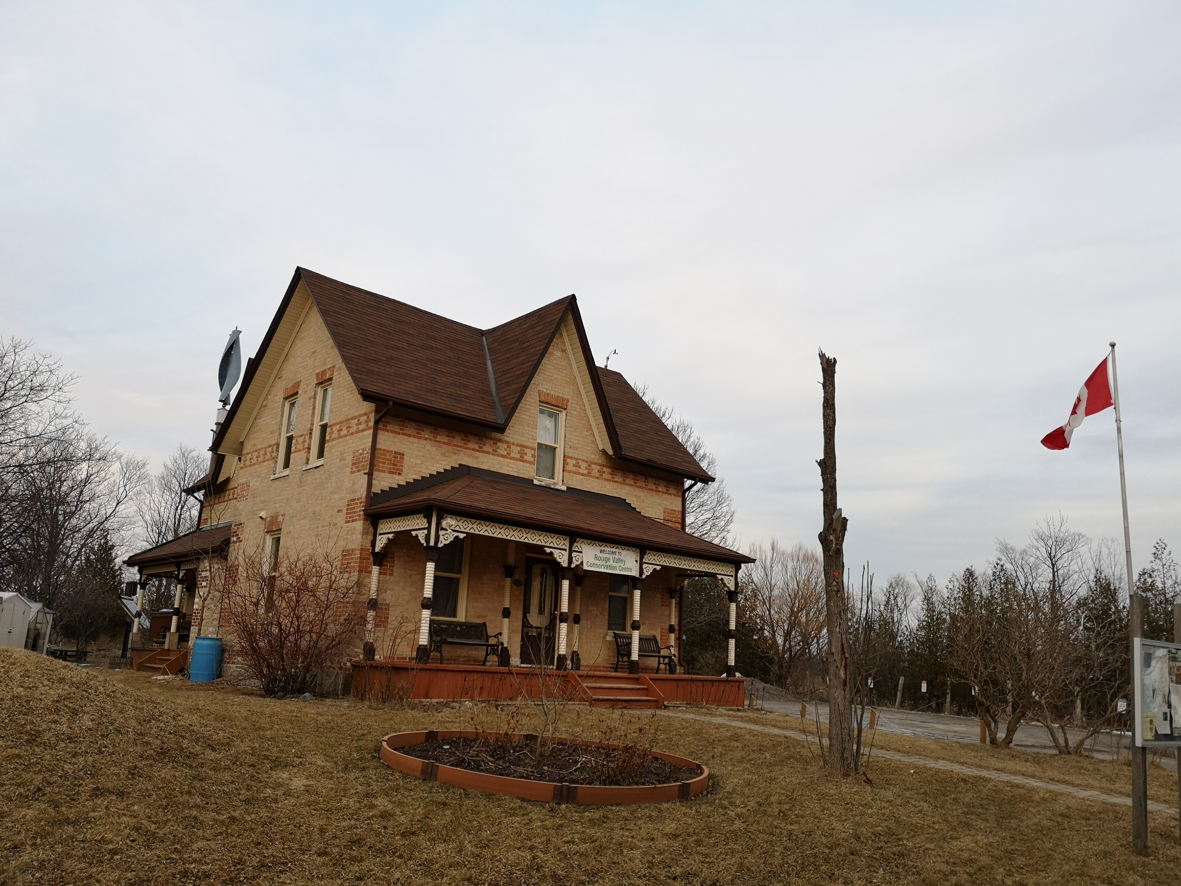 Rouge Valley Conservation Centre in Rouge National Urban Park, located in Scarborough, Toronto. The building was erected in 1869, and is located on 1749 Meadowvale Road.